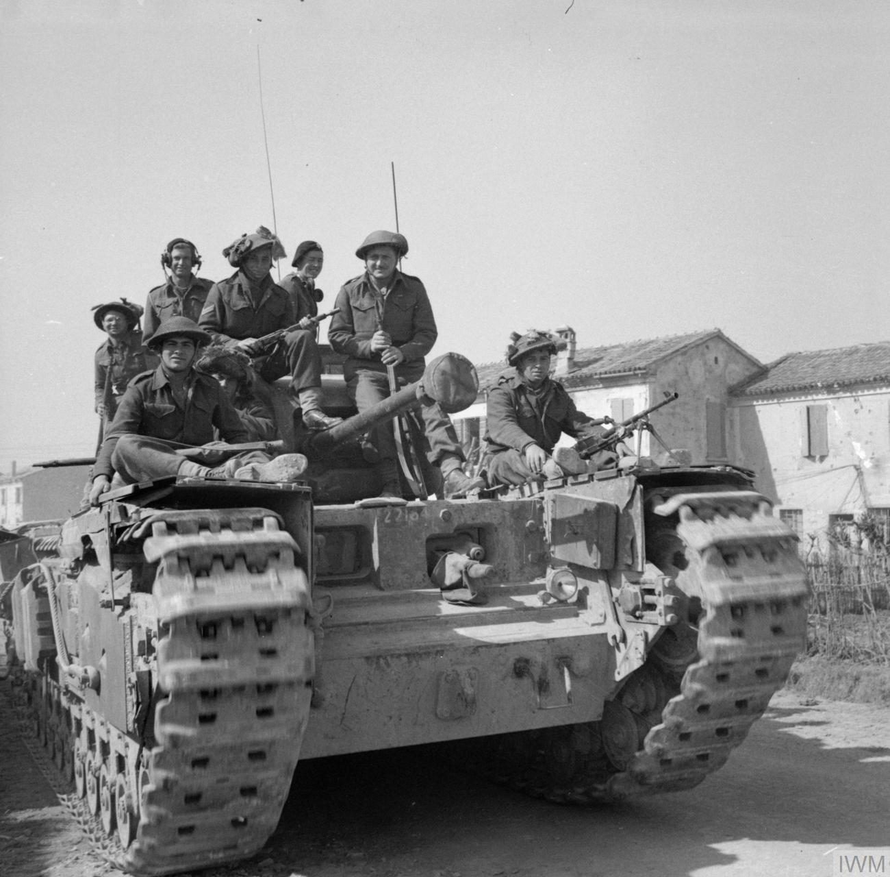 The British Army in Italy 1945 'A' Company, 1st Battalion of the Jewish Brigade ride on a Churchill tank in the Mezzano-Alfonsine sector, 14 March 1945.